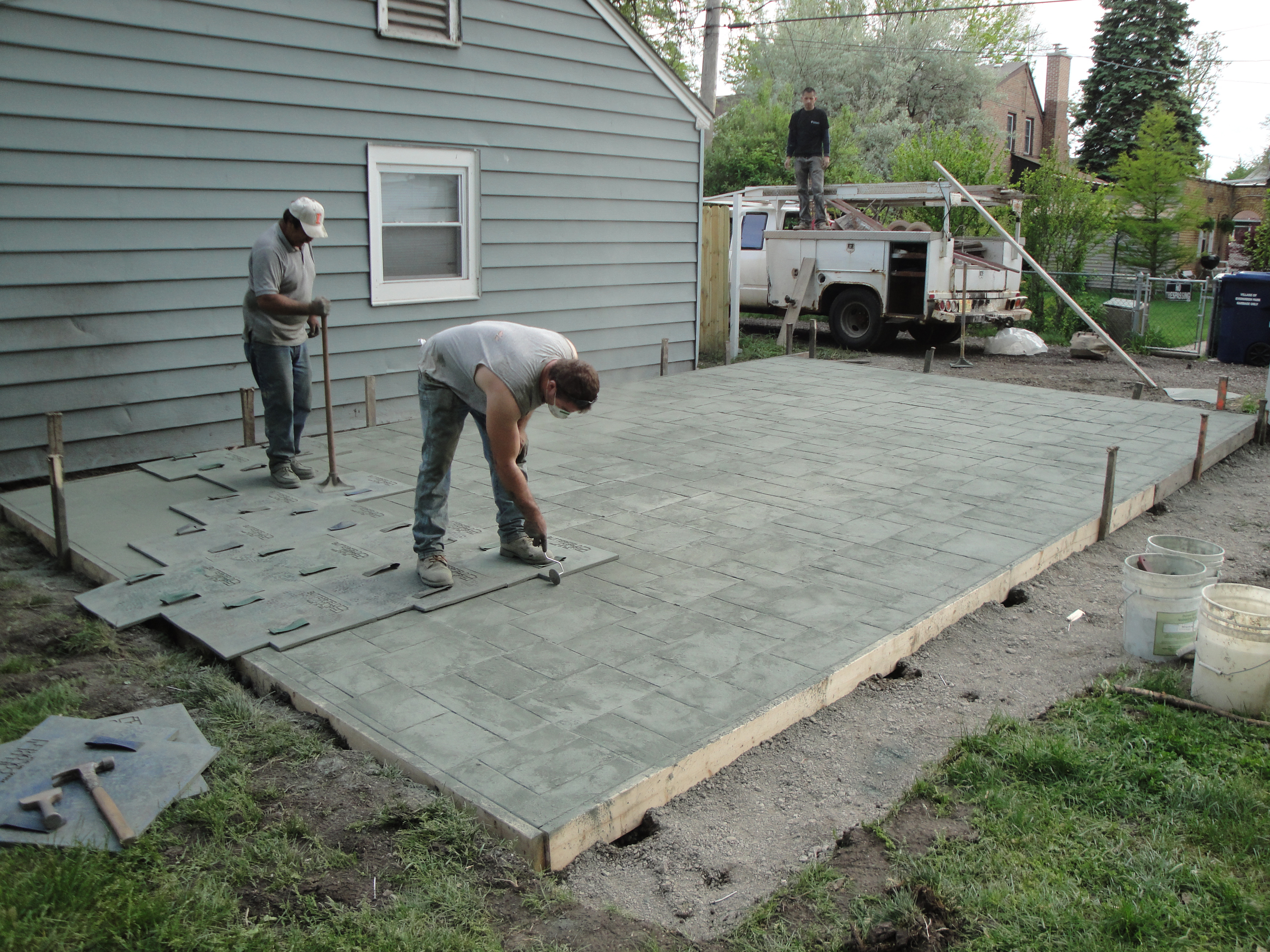 Concrete being stamped with ashlar slate pattern — construction of a patio.